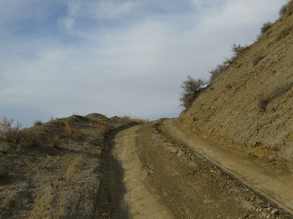 Picture of road in the breaks-tilting outwards, dirt